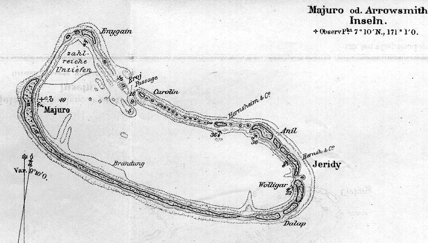 historical map of Majuro Atoll, Marshall Islands, Pacific Ocean